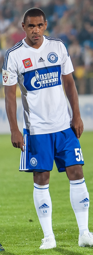 Adessoye Oyewole